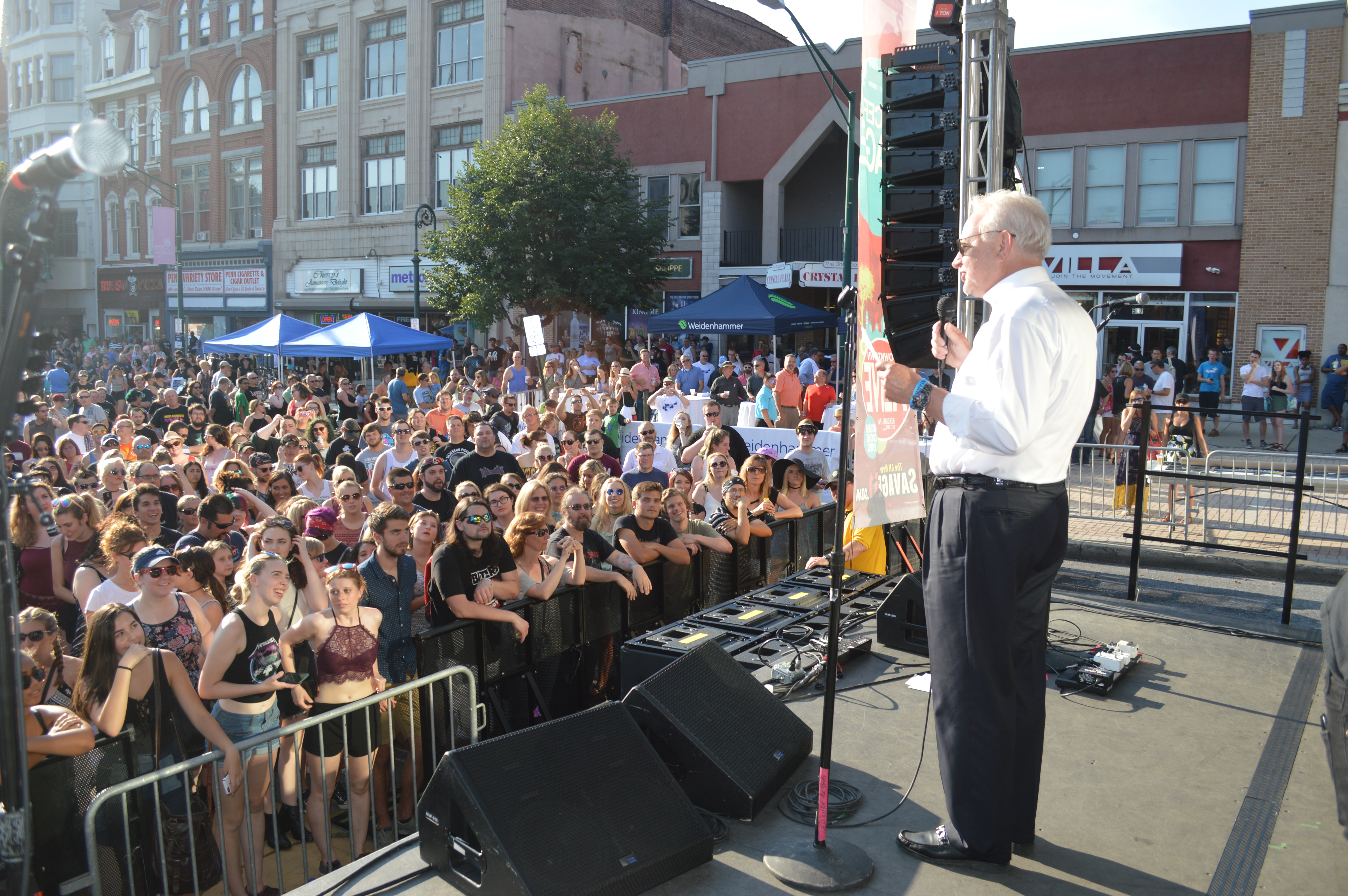 As part of Berks County Community Foundation's free Downtown Alive outdoor concert series, co-sponsor John Weidenhammer introduces British rock band The Struts in the 500 block of Penn Street in Reading, Pa., on July 20, 2016.